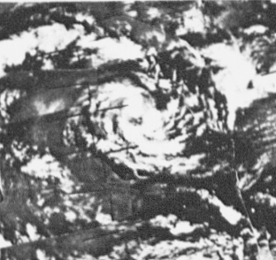 TIROS IX image of a cyclone in the South-West Indian Ocean on February 13, 1965, later used in the first global photo mosaic.